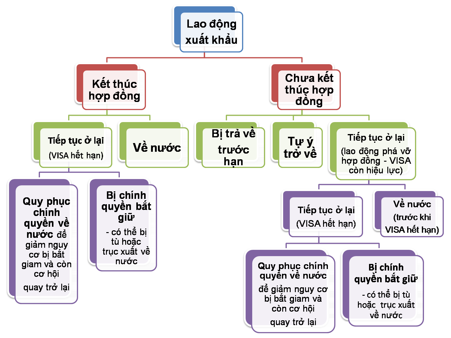 Employment Paths of Migrant Workers